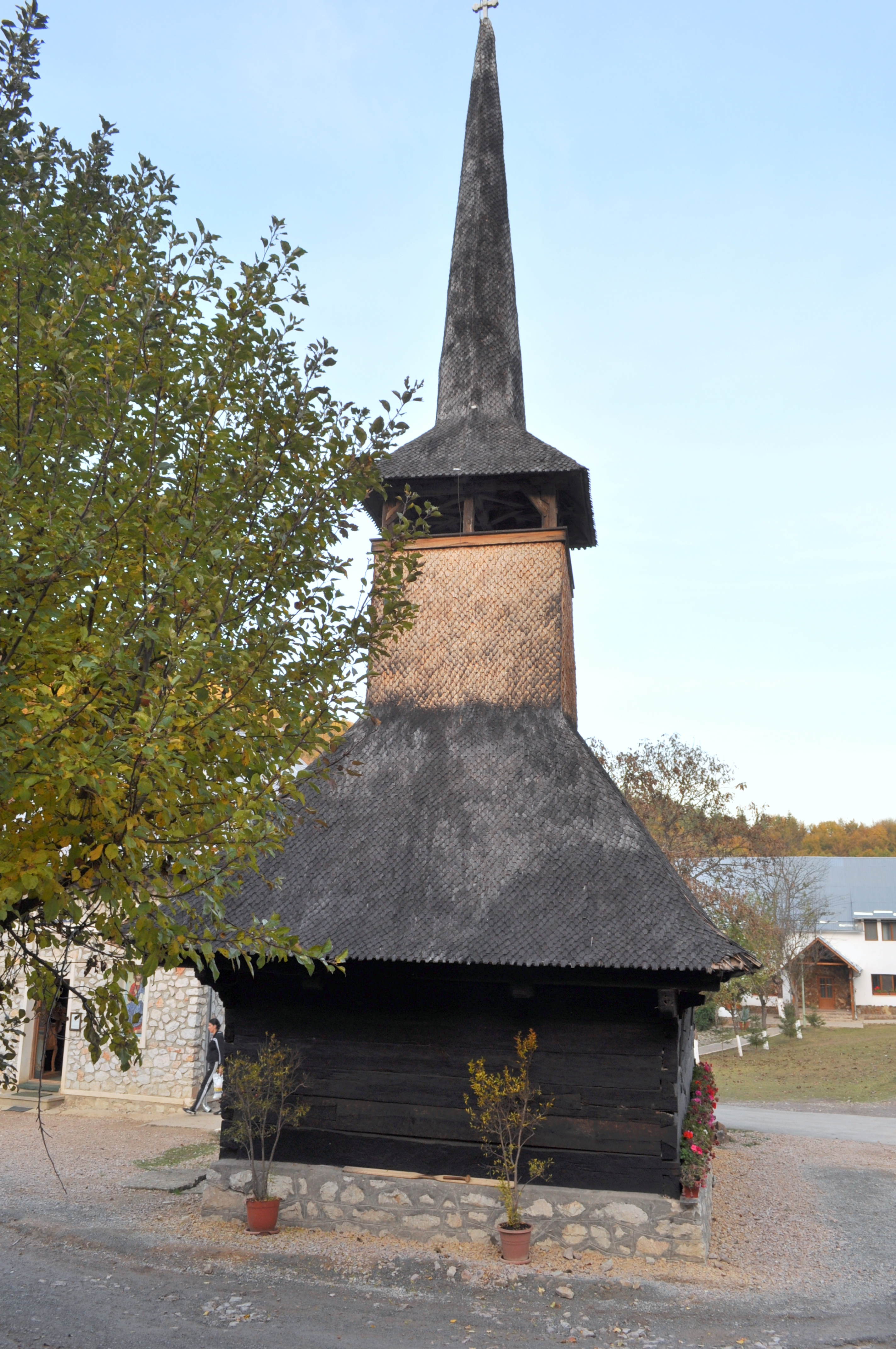 the Izbuc Orthodox monastery near Călugări village, Codru-Moma Mountains, Romania